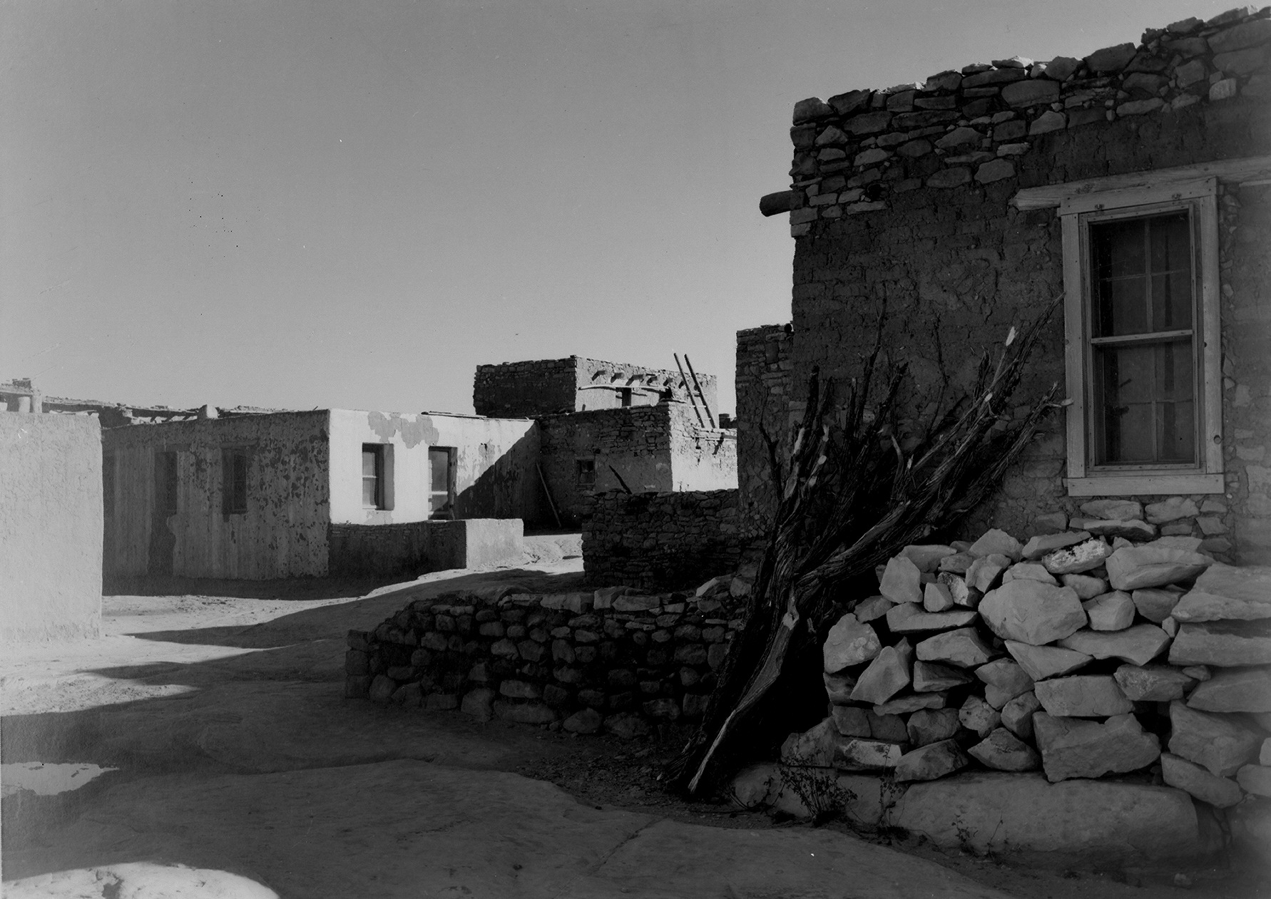 "Acoma Pueblo," looking across street toward houses.